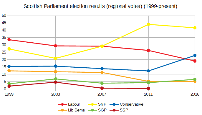 Scottish Parliament election results (regional votes) (1999-present)